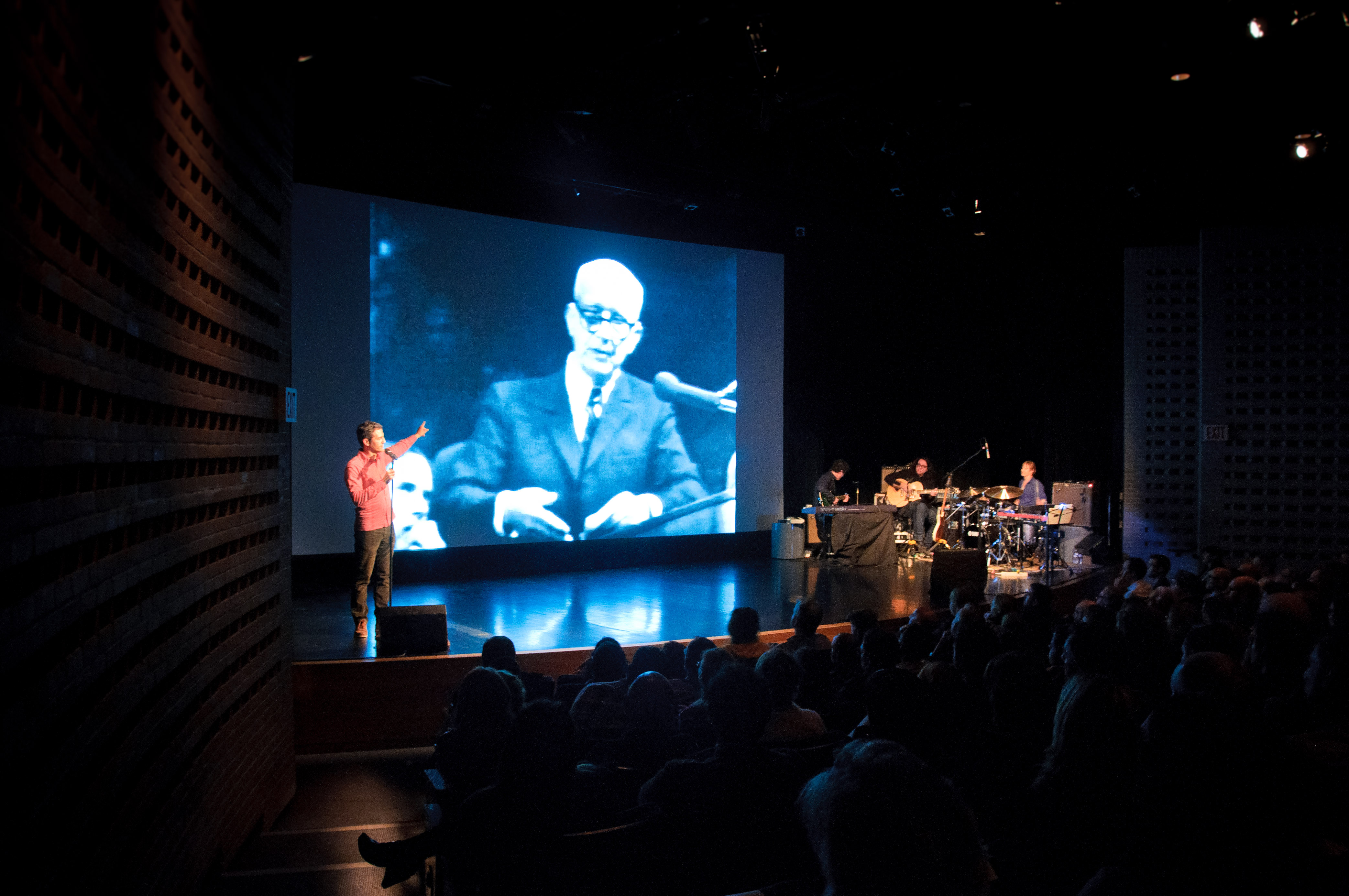 Filmmaker Sam Green and indie rock band Yo La Tengo premiere their live documentary "The Love Song of R. Buckminster Fuller" at SFMOMA on May 1, 2012, as part of the 2012 San Francisco International Film Festival.